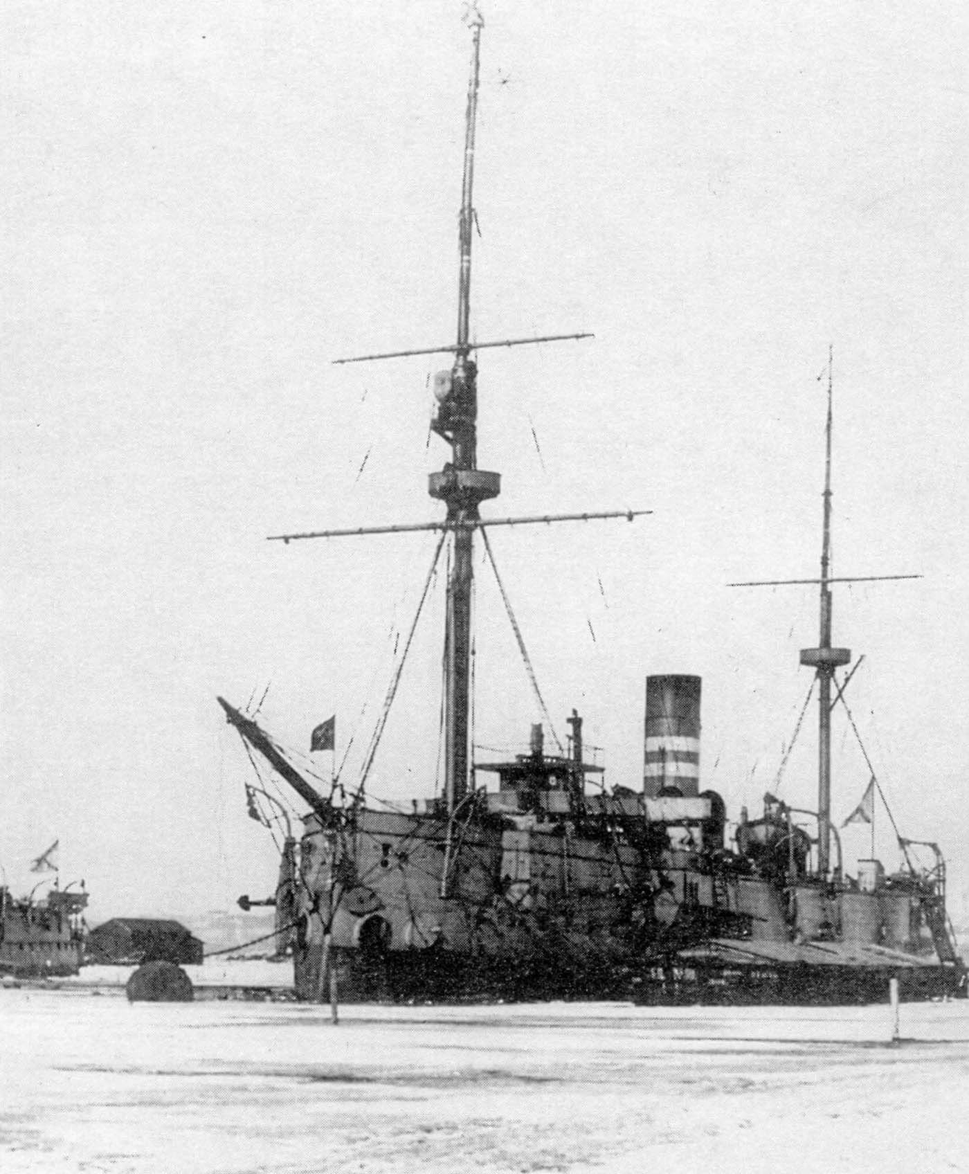 Imperial Russian minelaiyer Ladoga in Helsingfors.